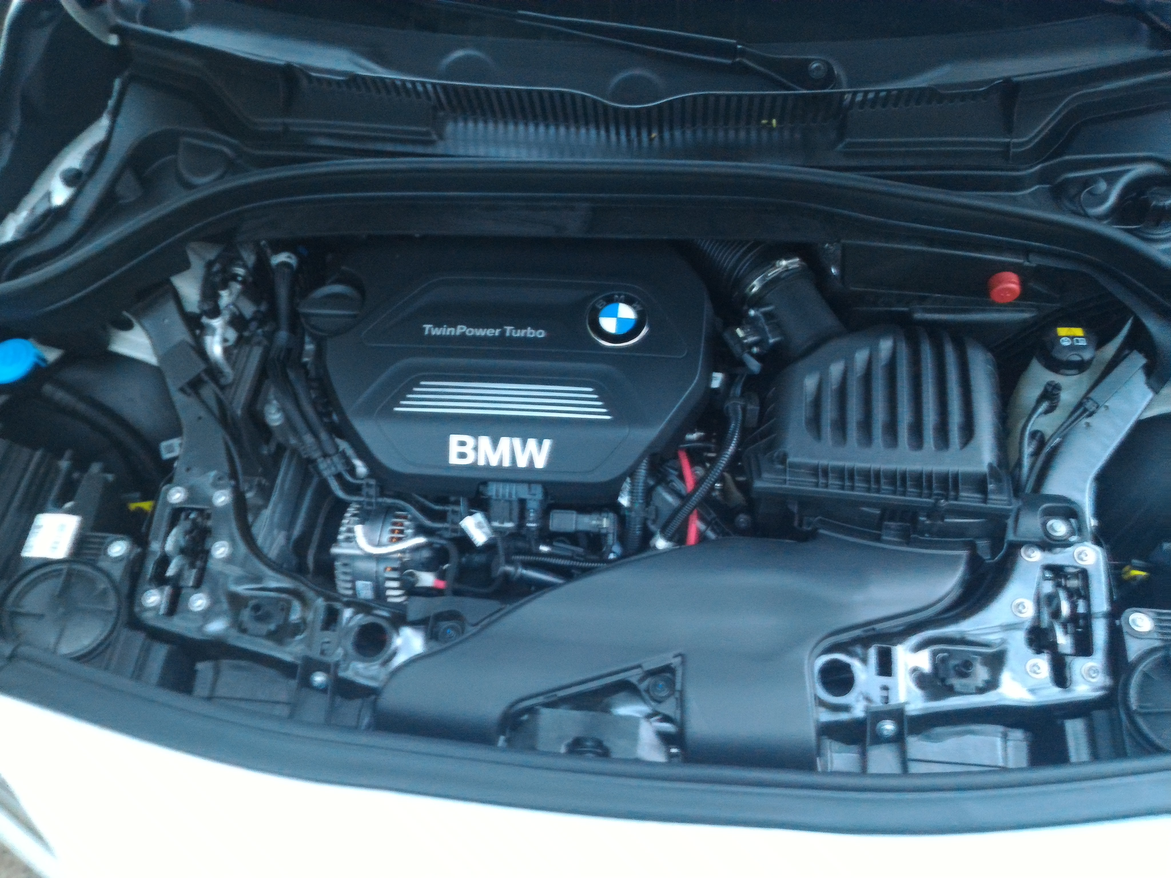 BMW B37 installed in a 2016 BMW 216d Active Tourer.